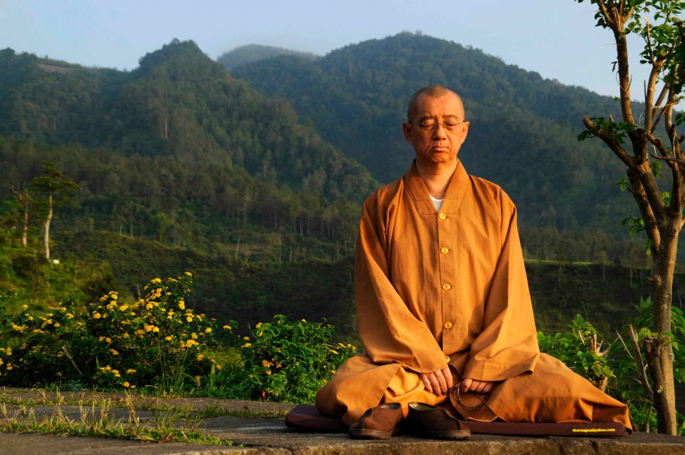 Ven. Chi Chern in a 5-days Ch'an retreat at Bandungan, Central Java, Indonesia (February 2012)